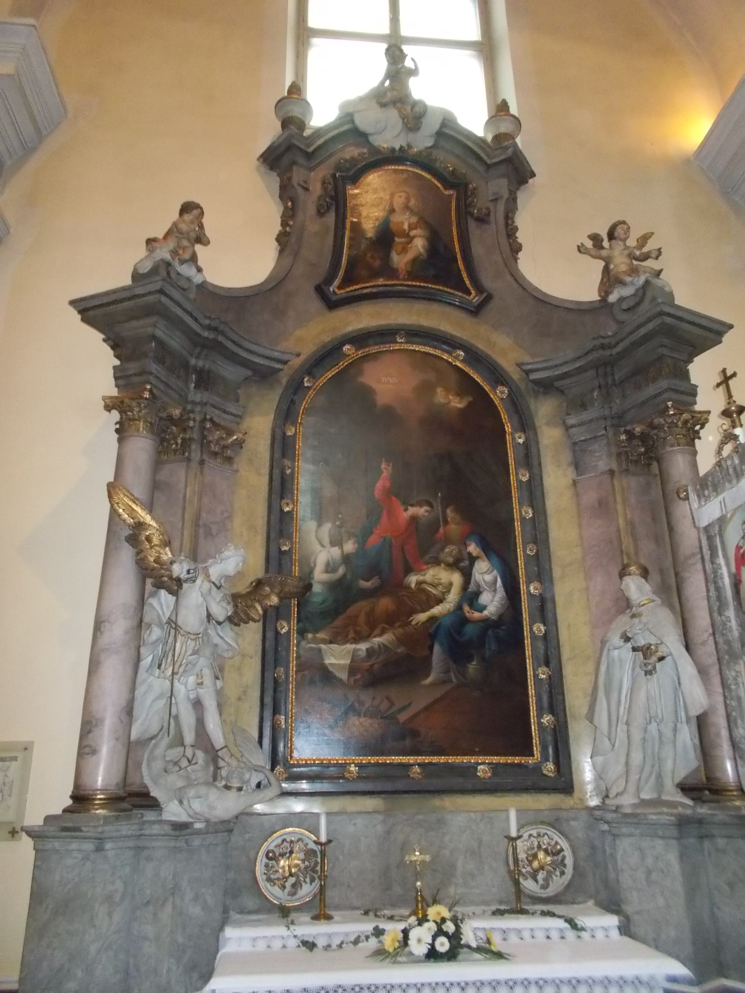 Saint Catherine Church. Saint Joseph altar: main painting (Károly József Schöffel); statues of Saint Michael and Prince Imre, above its: Saint Thecla's picture (1816). - Attila Street, Tabán, Budapest